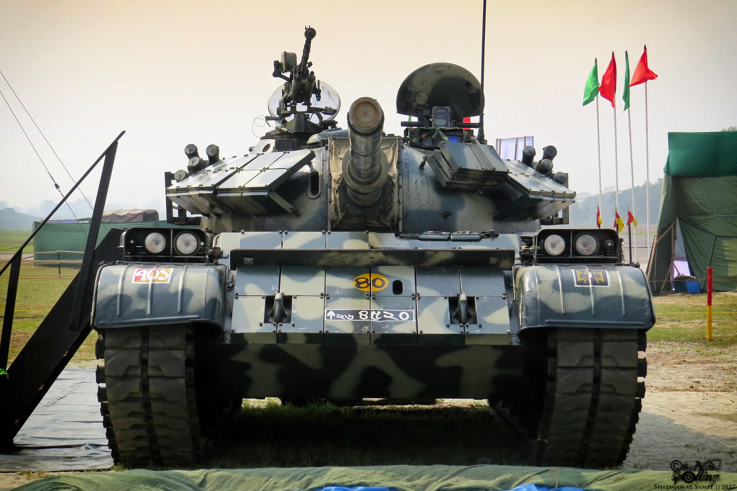 VGTJ/MHD 2017: Head on with the workhorse...or warhorse!